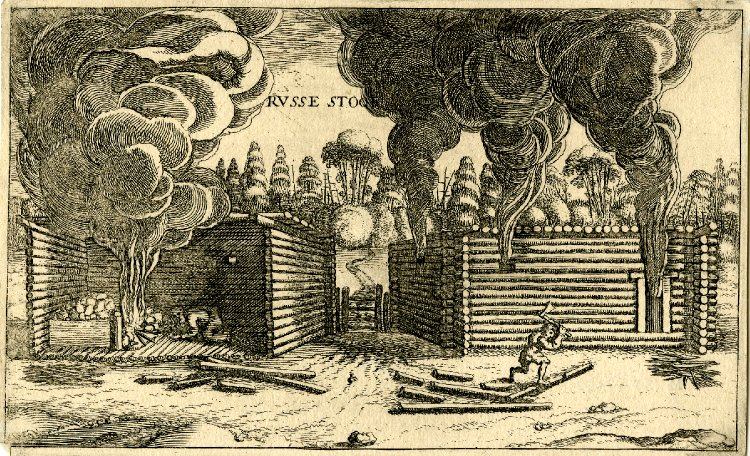 Russian house, print by Antonis Goeteeris